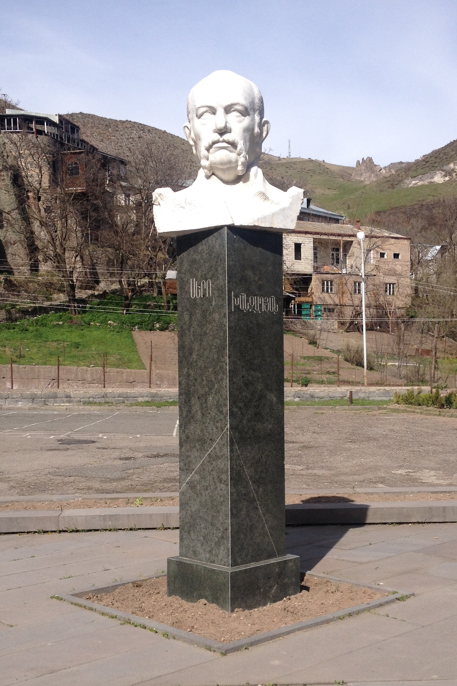 Monument to Sero Nikolai Khanzadyan in Goris